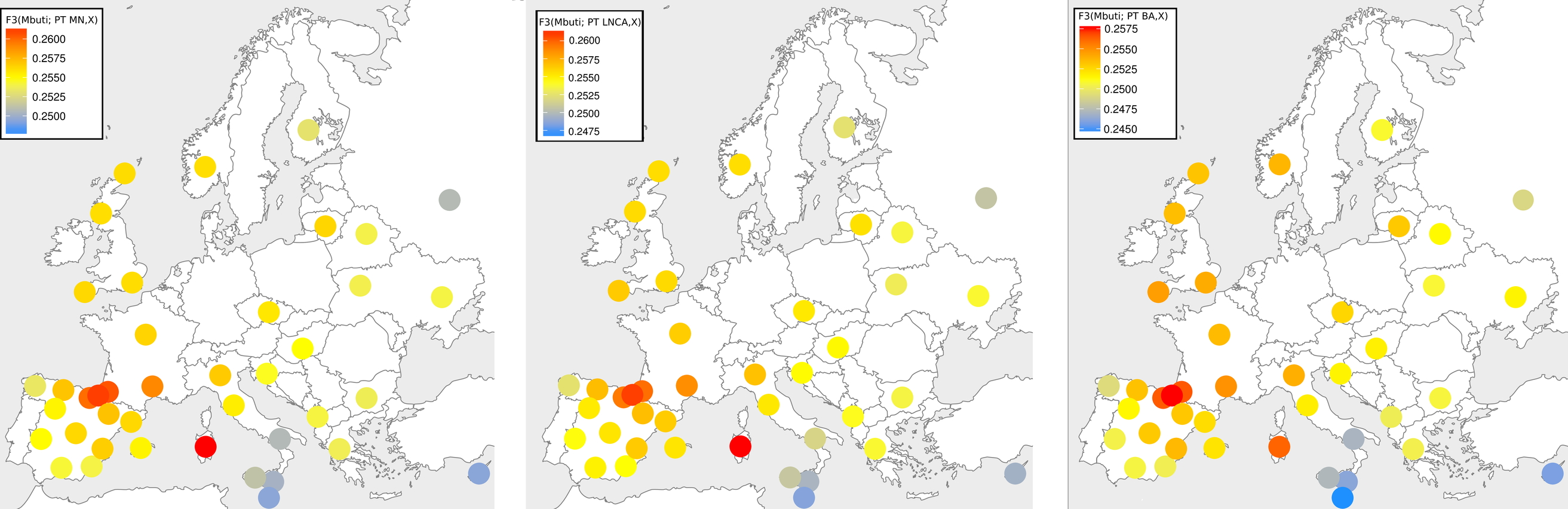 Neolithic (medium and late) and Bronze Age genetic samples from Portugal, distance from current populations.